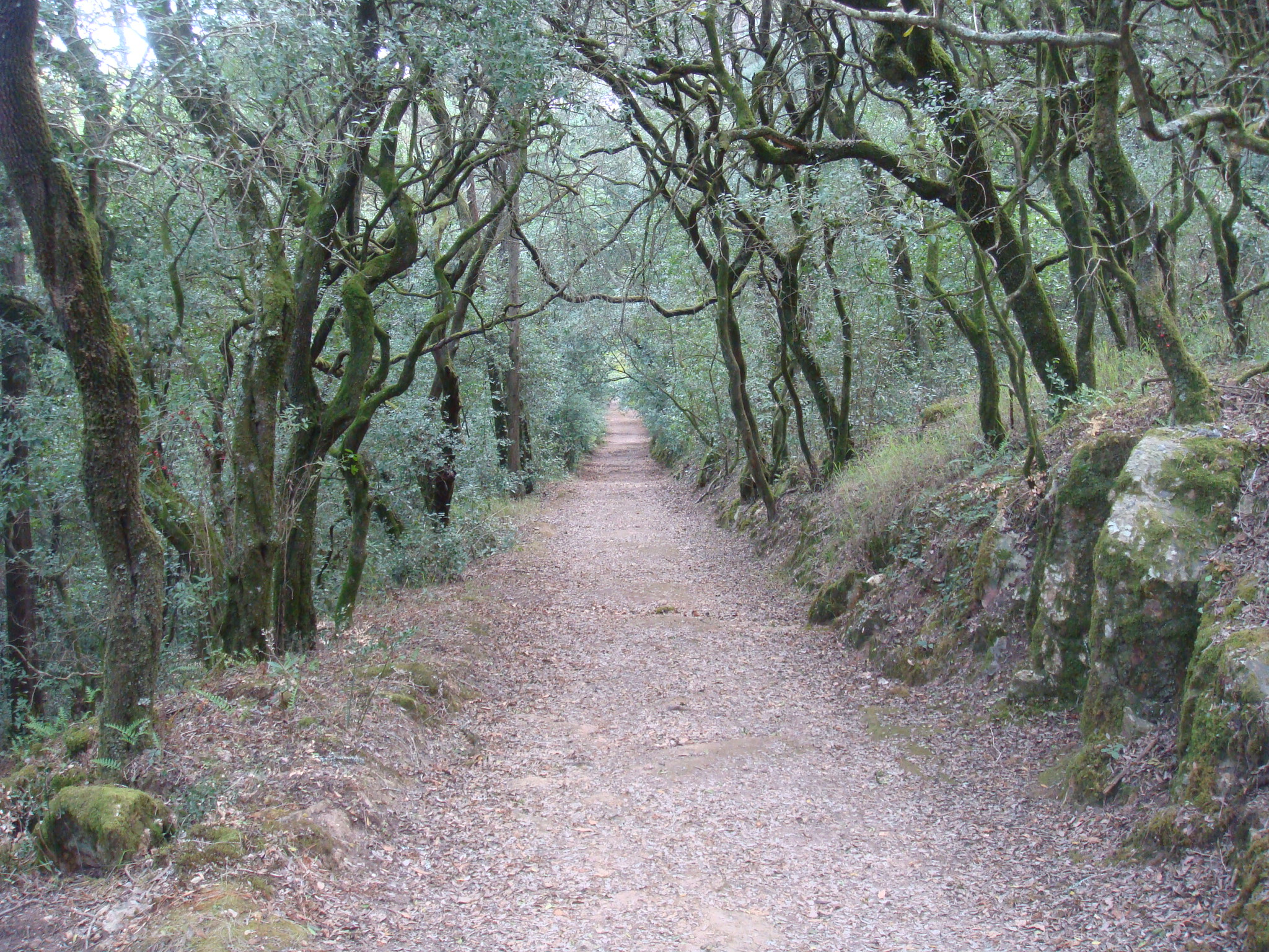 Mata do Buçaco, Luso, Portugal.